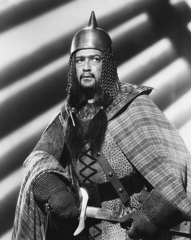 Edgar Barrier in Macbeth - publicity still